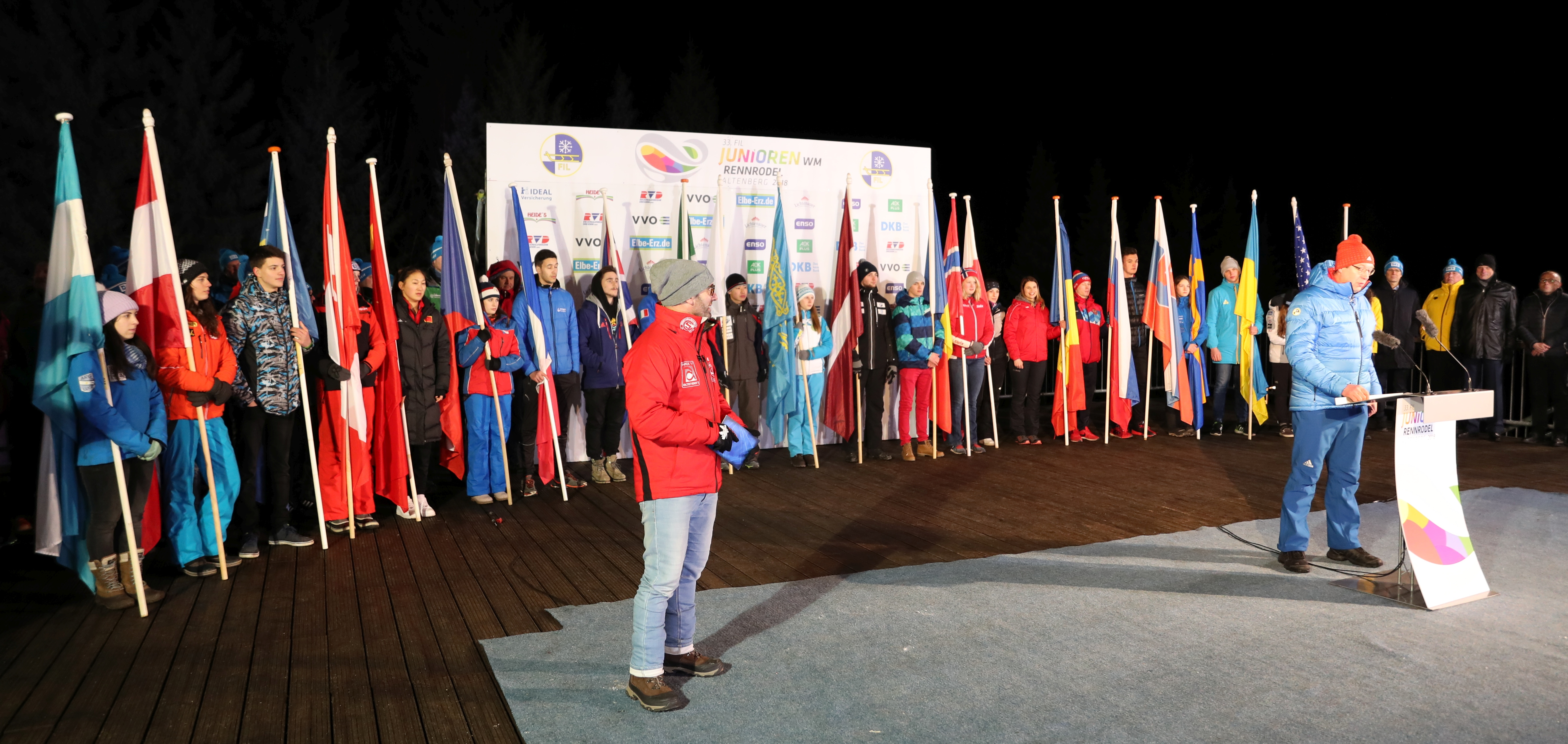 33rd FIL Junior World Championships in Altenberg 2018: Opening Ceremony